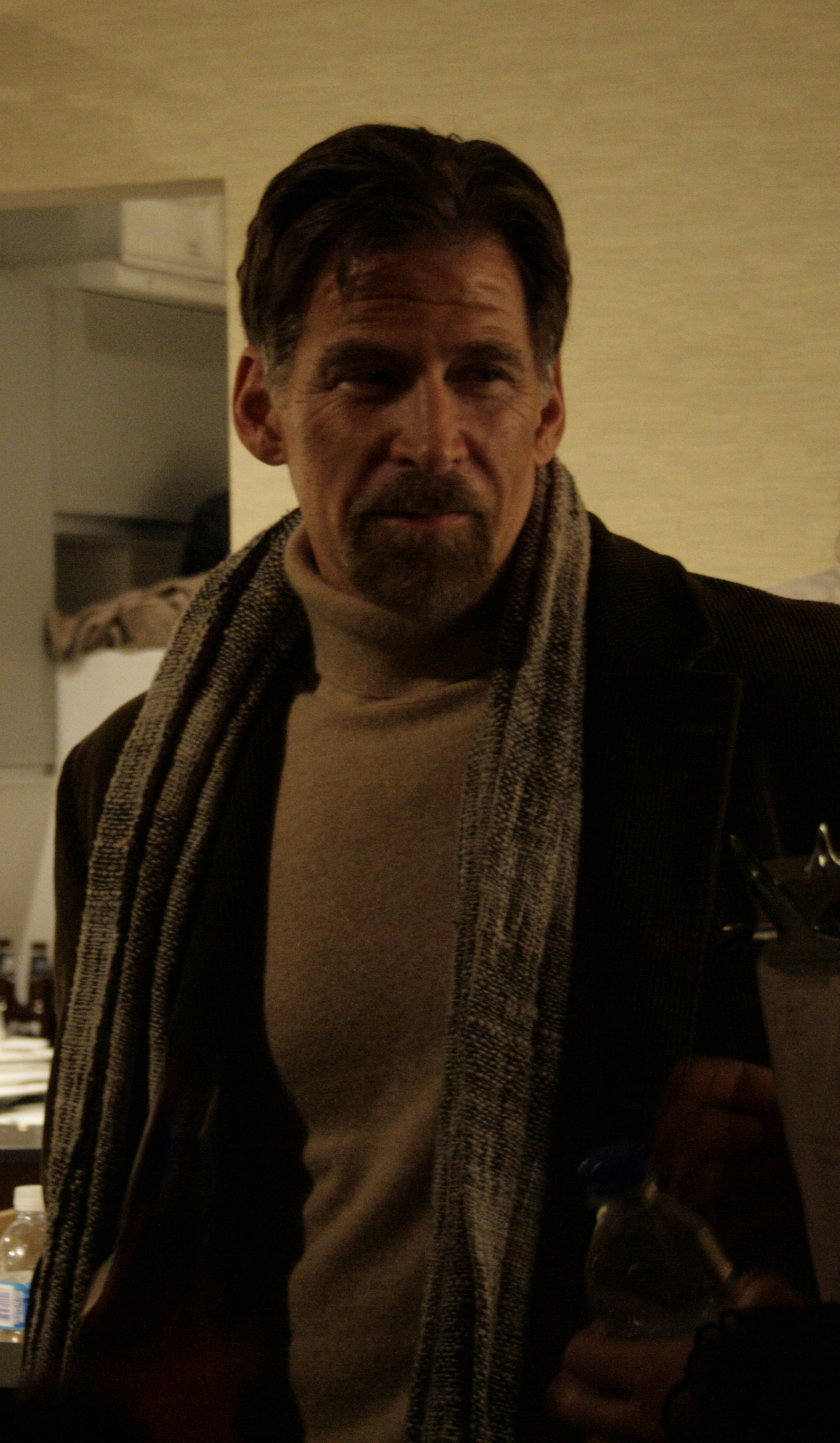 Wayne Schoenfeld, photographer.